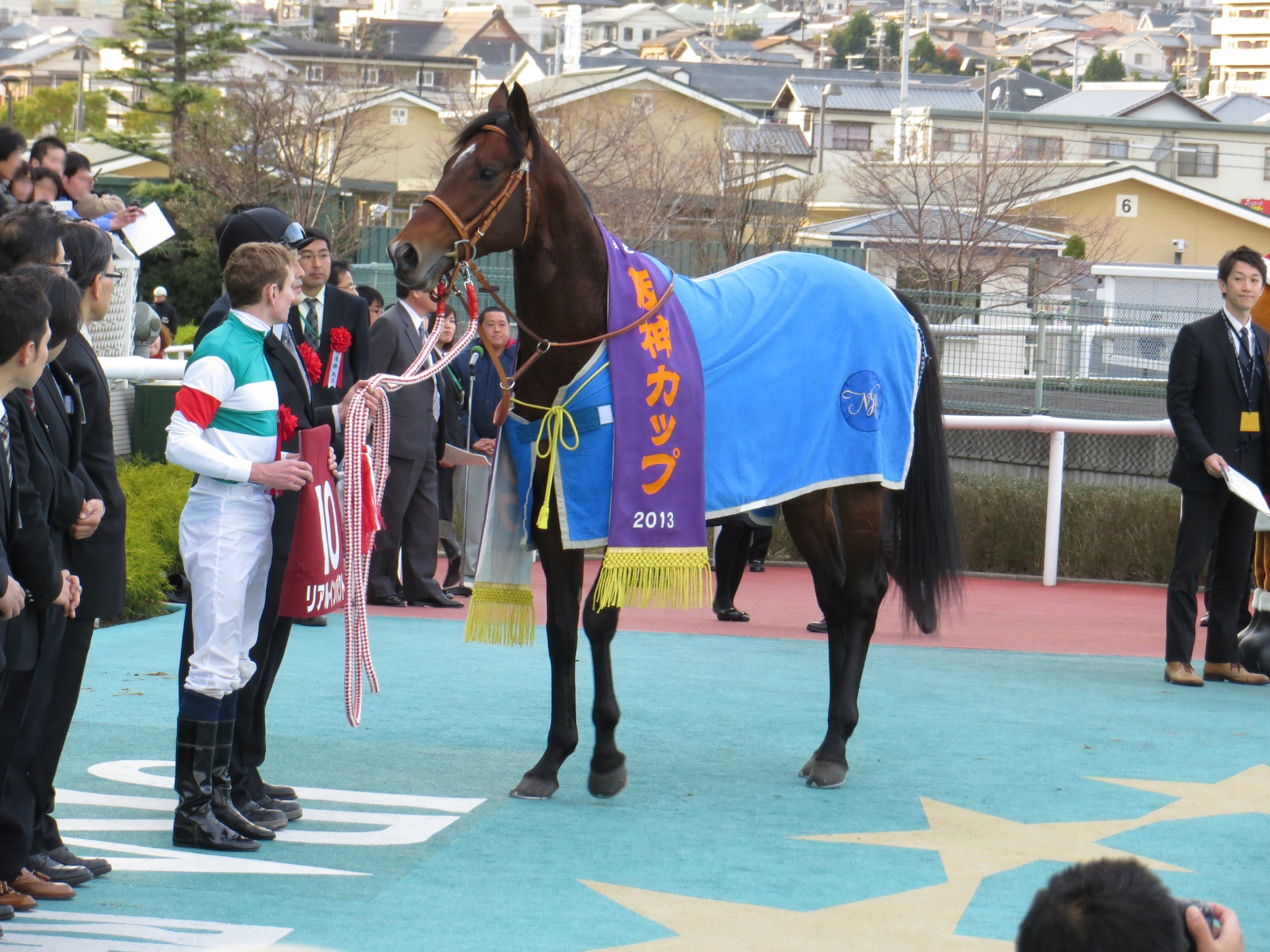 Real Impact (Racehorse of Japan) in Hanshin Cup, 2013.